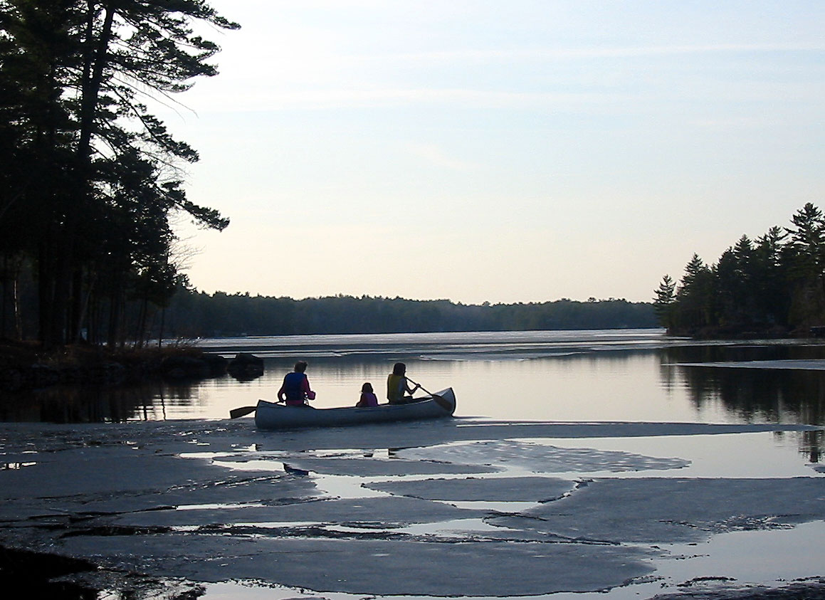 A group of girls setting off in a canoe on a lake. Taken in Muskoka, Ontario, Canada.IMG_5149